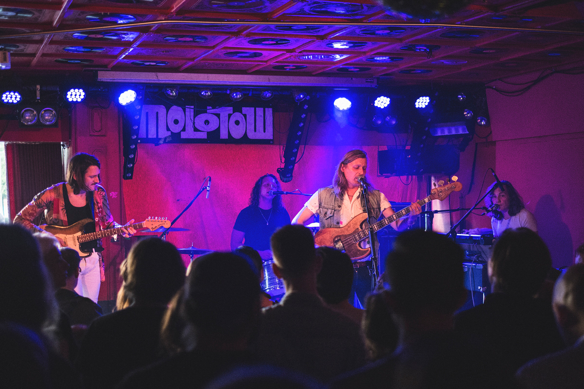 Okta Logue "Runway Markings" 2019